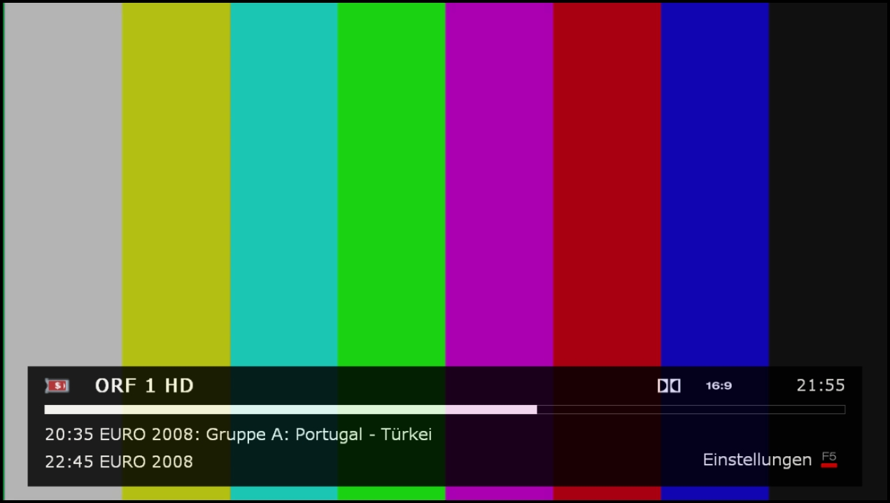 EM 2008 Turkey Germany